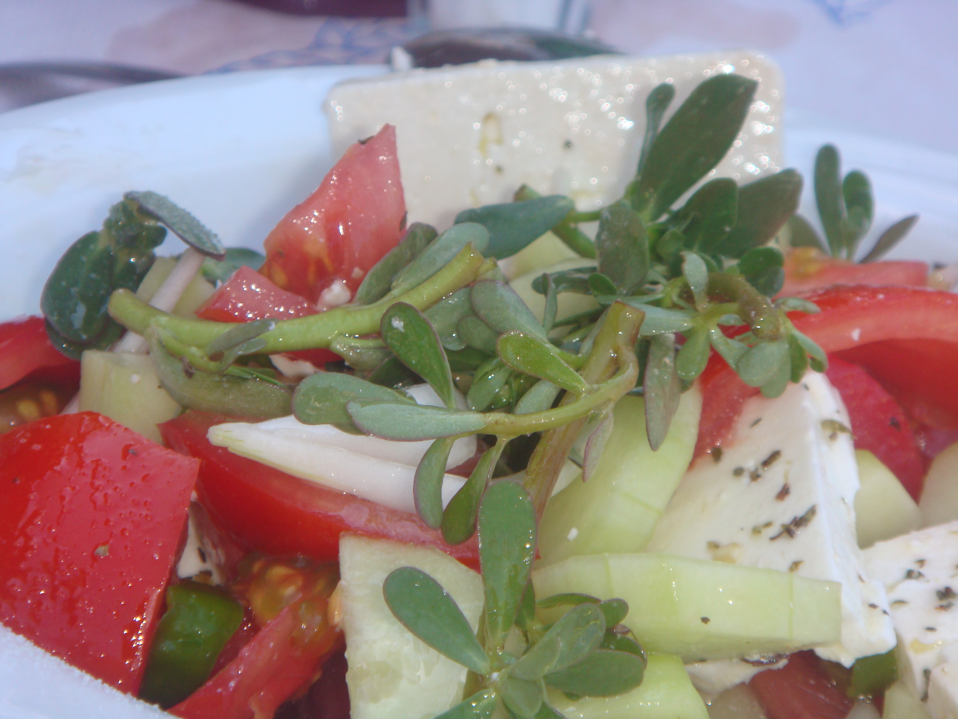 Greek salad closeup. Common Purslane and more vegetables in a plate with Greek salad. From a restaurant in Mohlos, Lasithi prefecture.